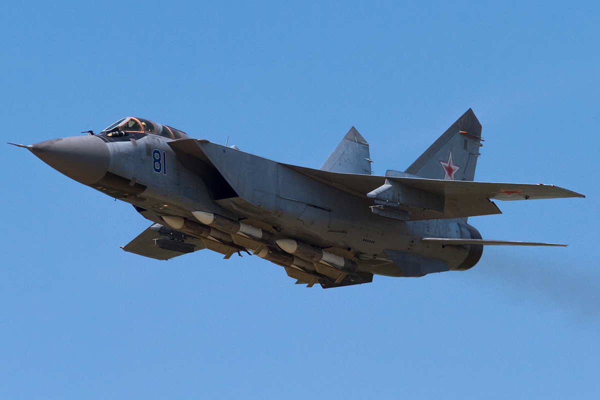 Mikoyan-Gurevich MiG-31 of the Russian Air Force